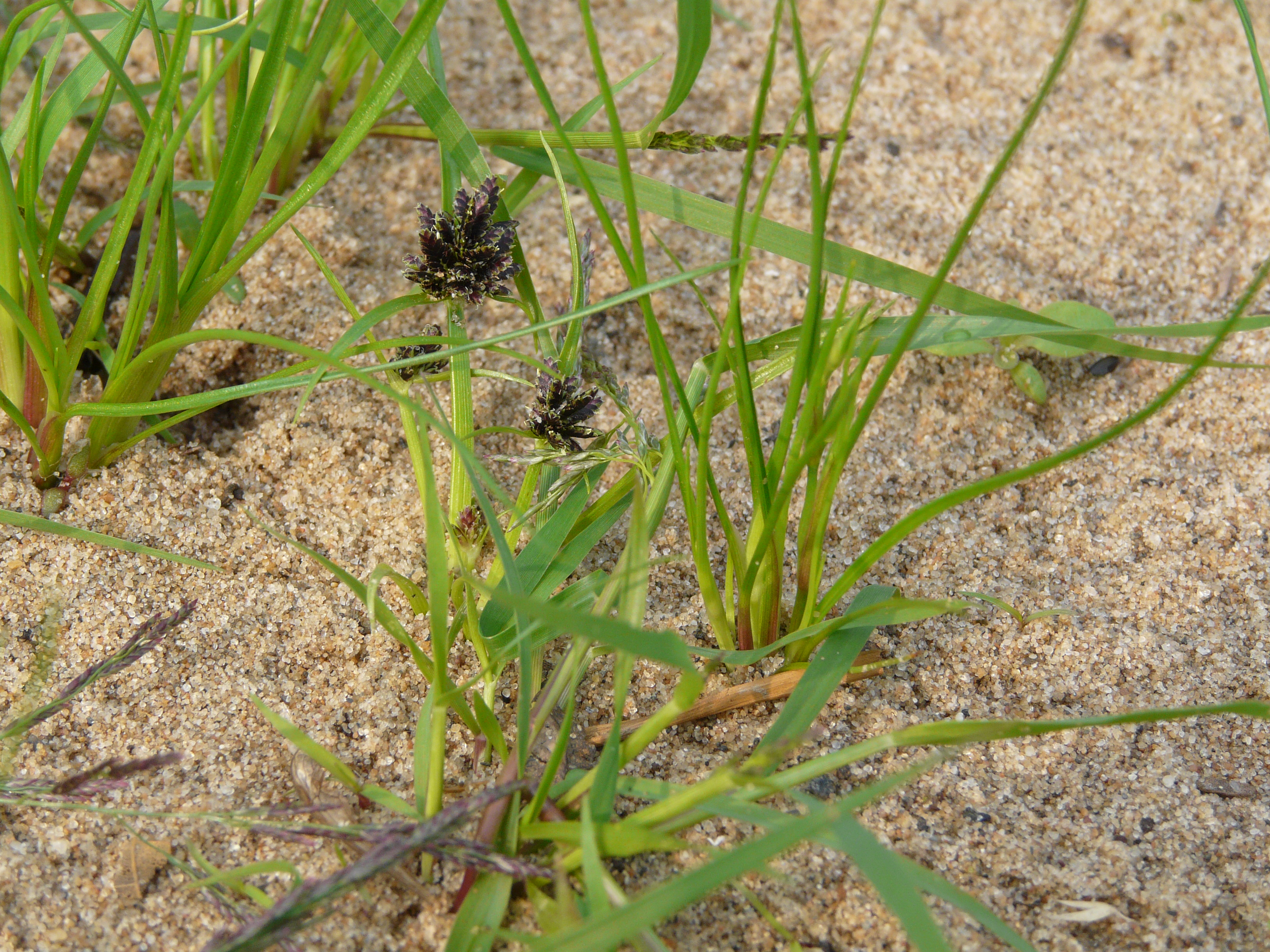 Cyperus fuscus at the Elbe river Germany